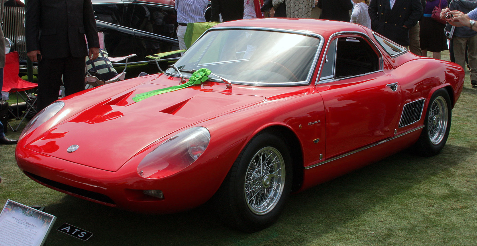 ATS 2500 GTS (1963) Pebble Beach Concours d'Elegance, Aug 16, 2009